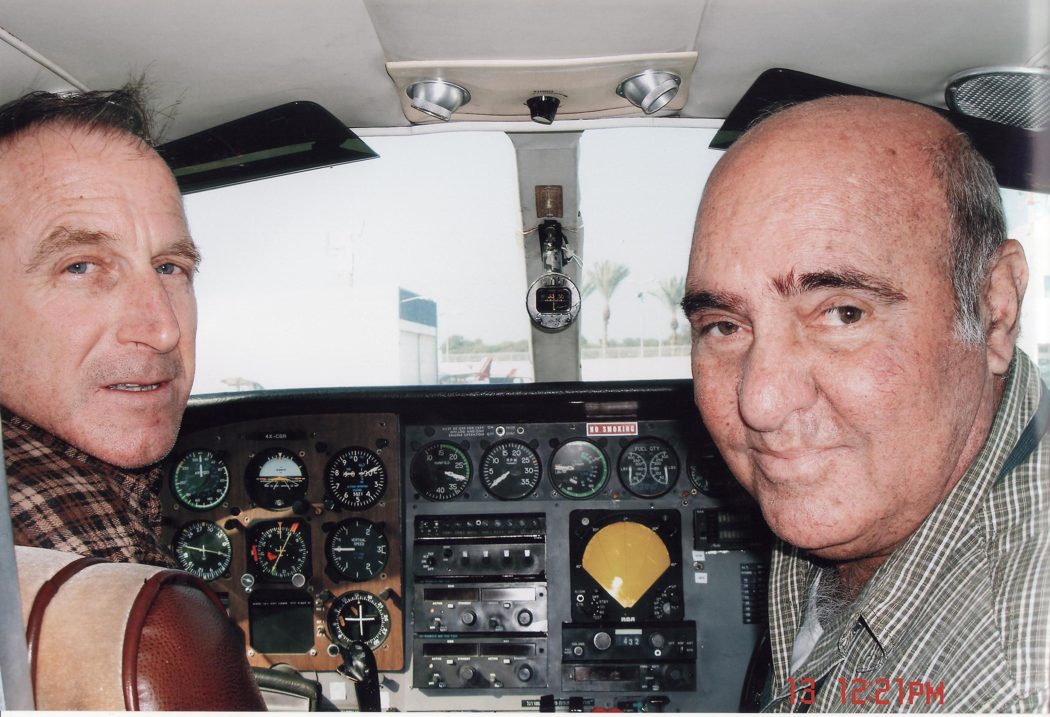 RADM Avraham Ashur flying a Cessna 201 with a friend